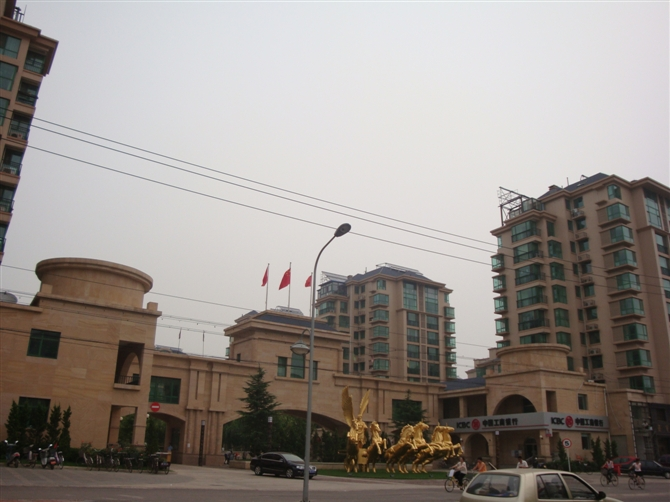 In Tangshan, Hebei